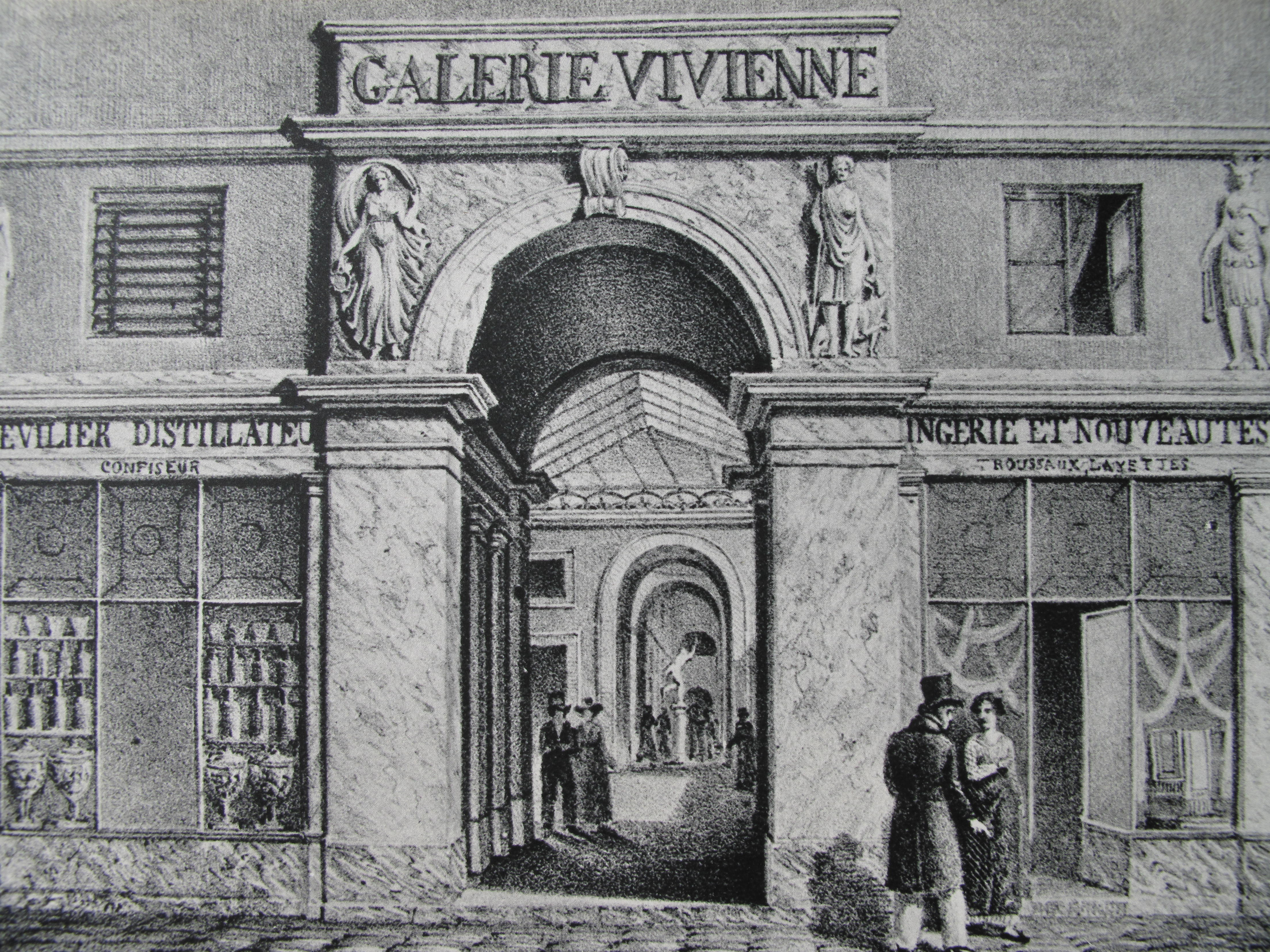 The Galerie Vivienne during the Bourbon restauration : 8 rue Vivienne, Paris 2nd arr.